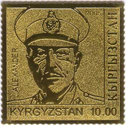 Stamp of Kyrgyzstan